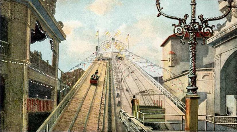 Shooting the Chutes at Luna Park, Coney Island, New York